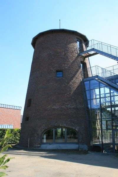 Cultural heritage monument No. 128 in Nettetal